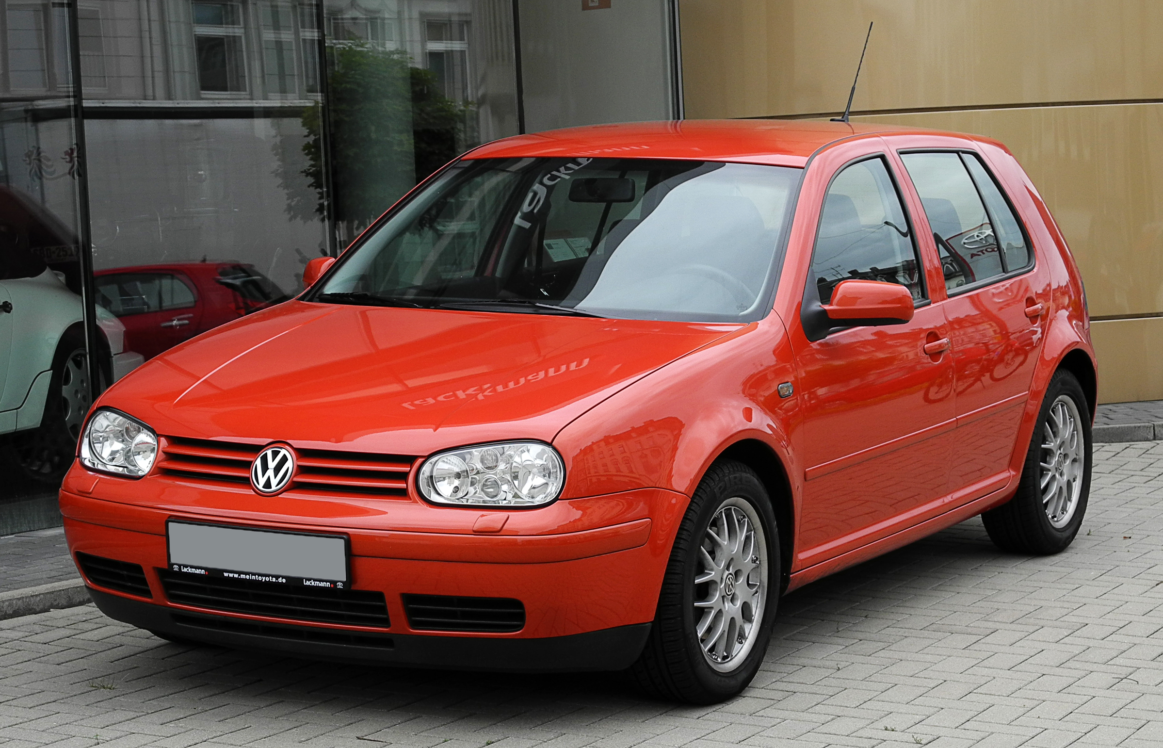 VW Golf GTI (IV)